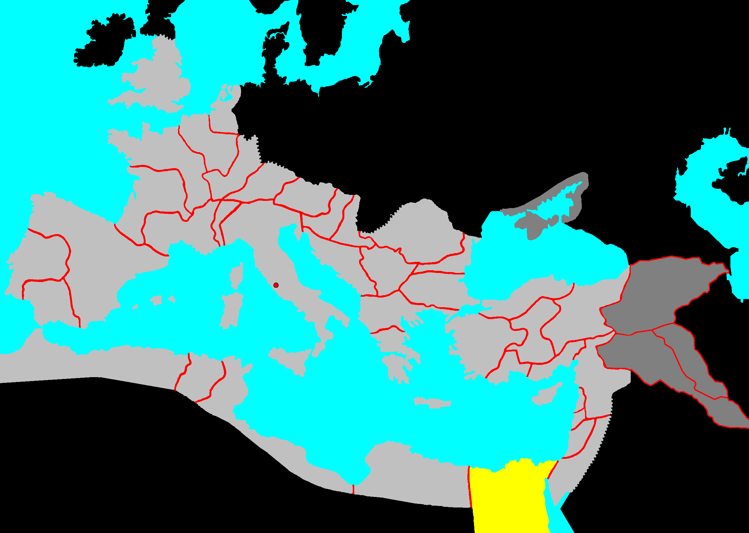 provinces of the Roman Empire (Imperium Romanum)